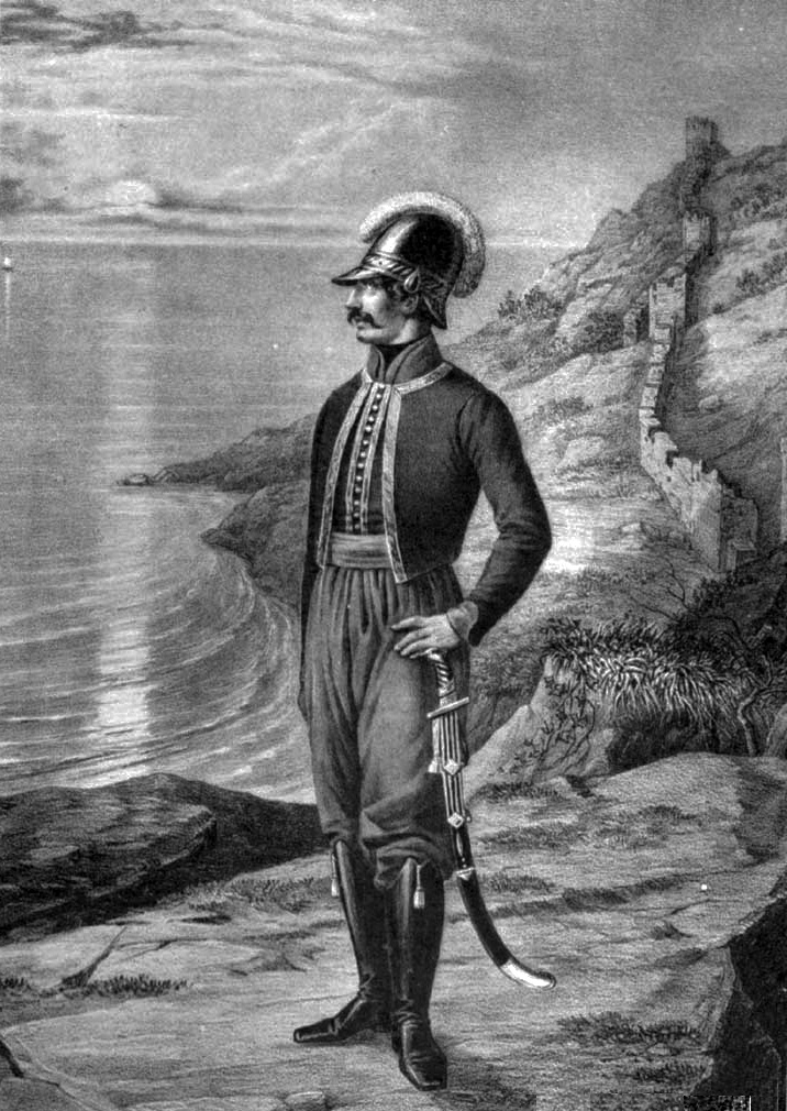 Officer of the Greek Battalion of Balaklava (Russian army), 1797-1801.